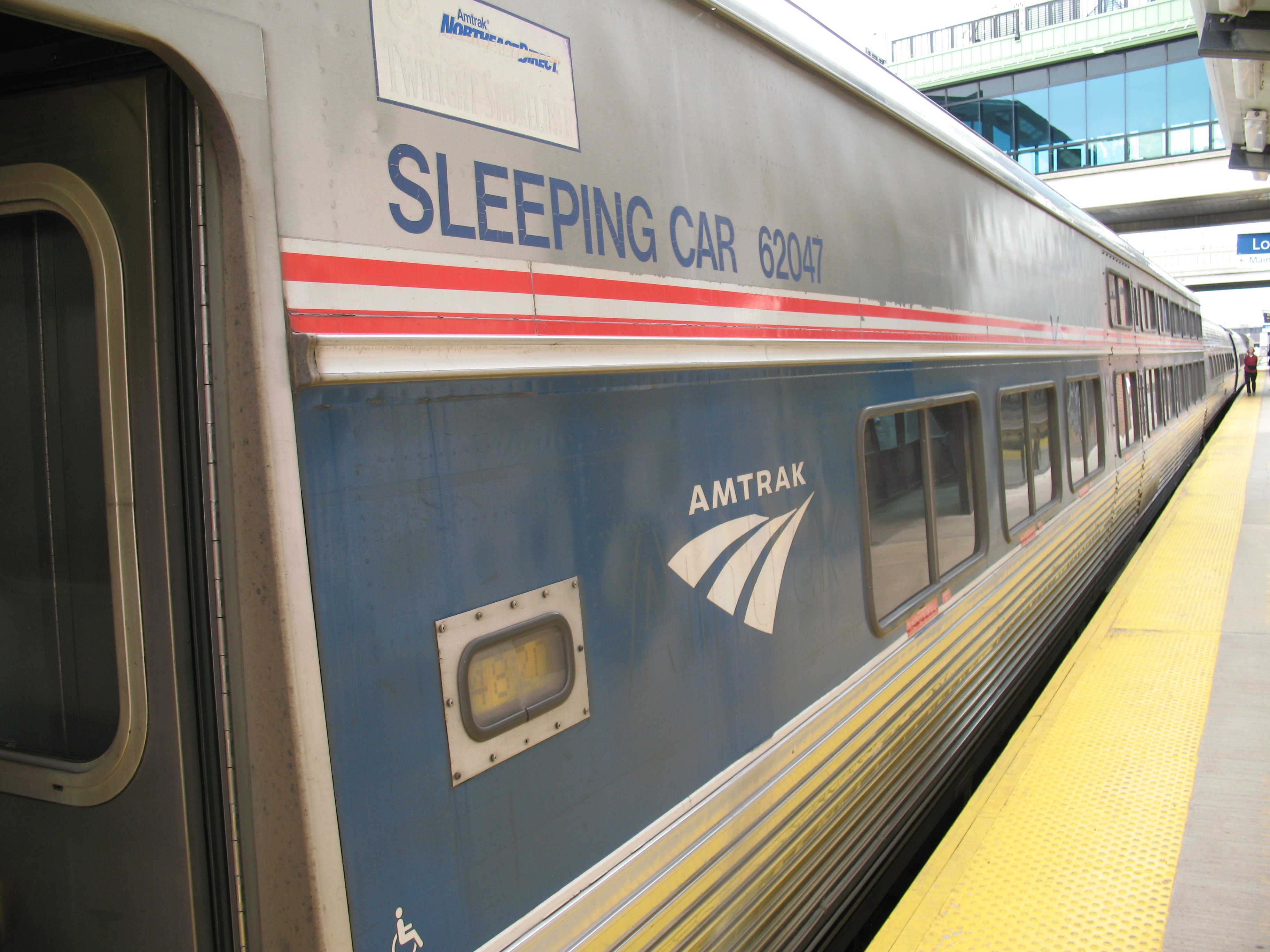 A Viewliner sleeper formerly assigned to the Twilight Shoreliner. It was photographed in Albany, New York, as part of a Lake Shore Limited consist.